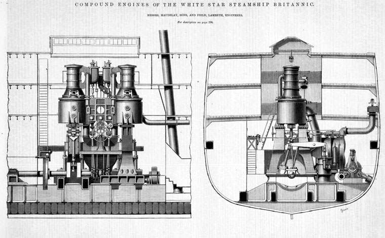 Compound engines of the White Star steamship Britannic (Maudslay, Sons and Field Engineers, dated 1876)